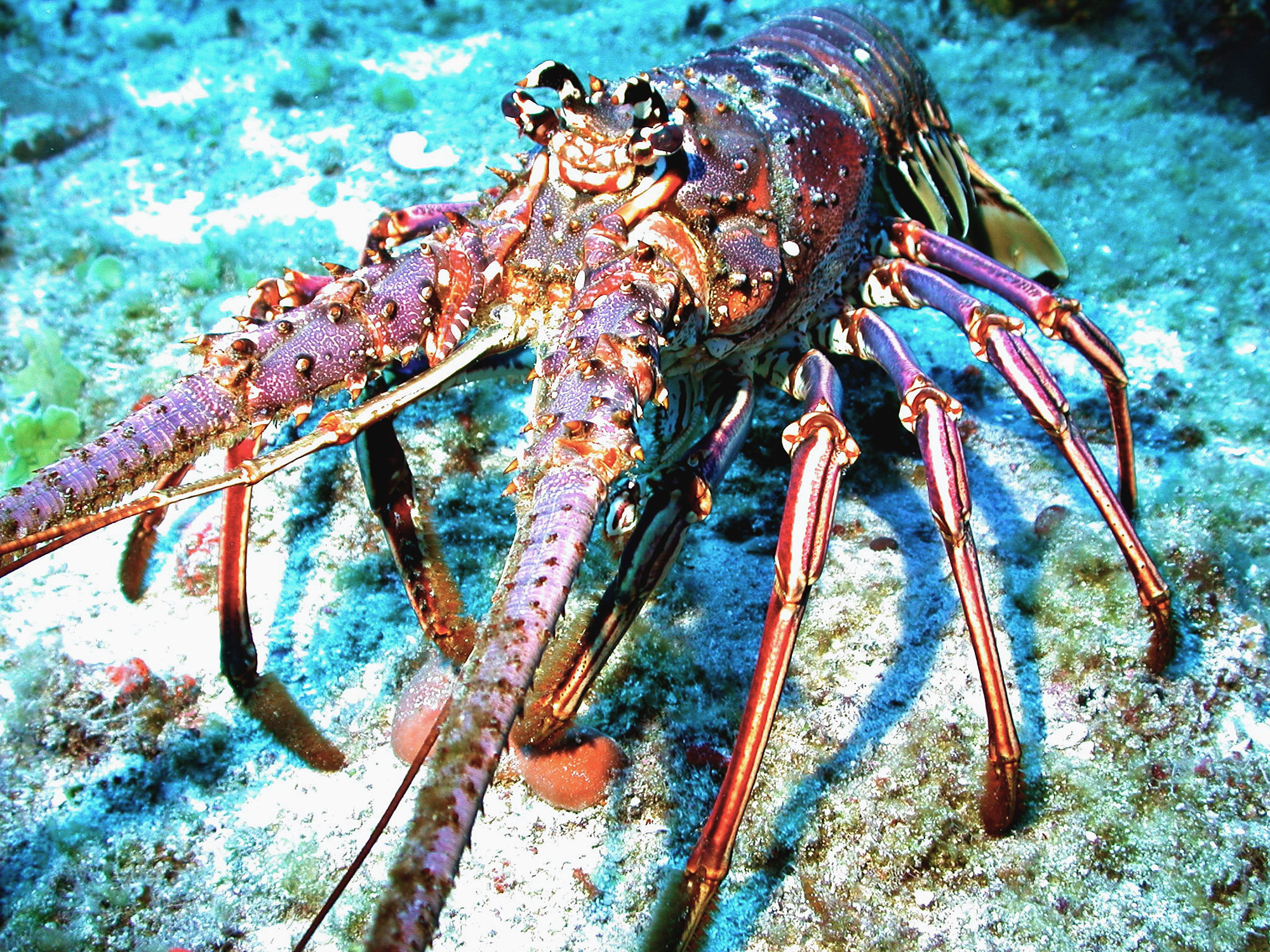 A Caribbean spiny lobster (Panulirus argus)